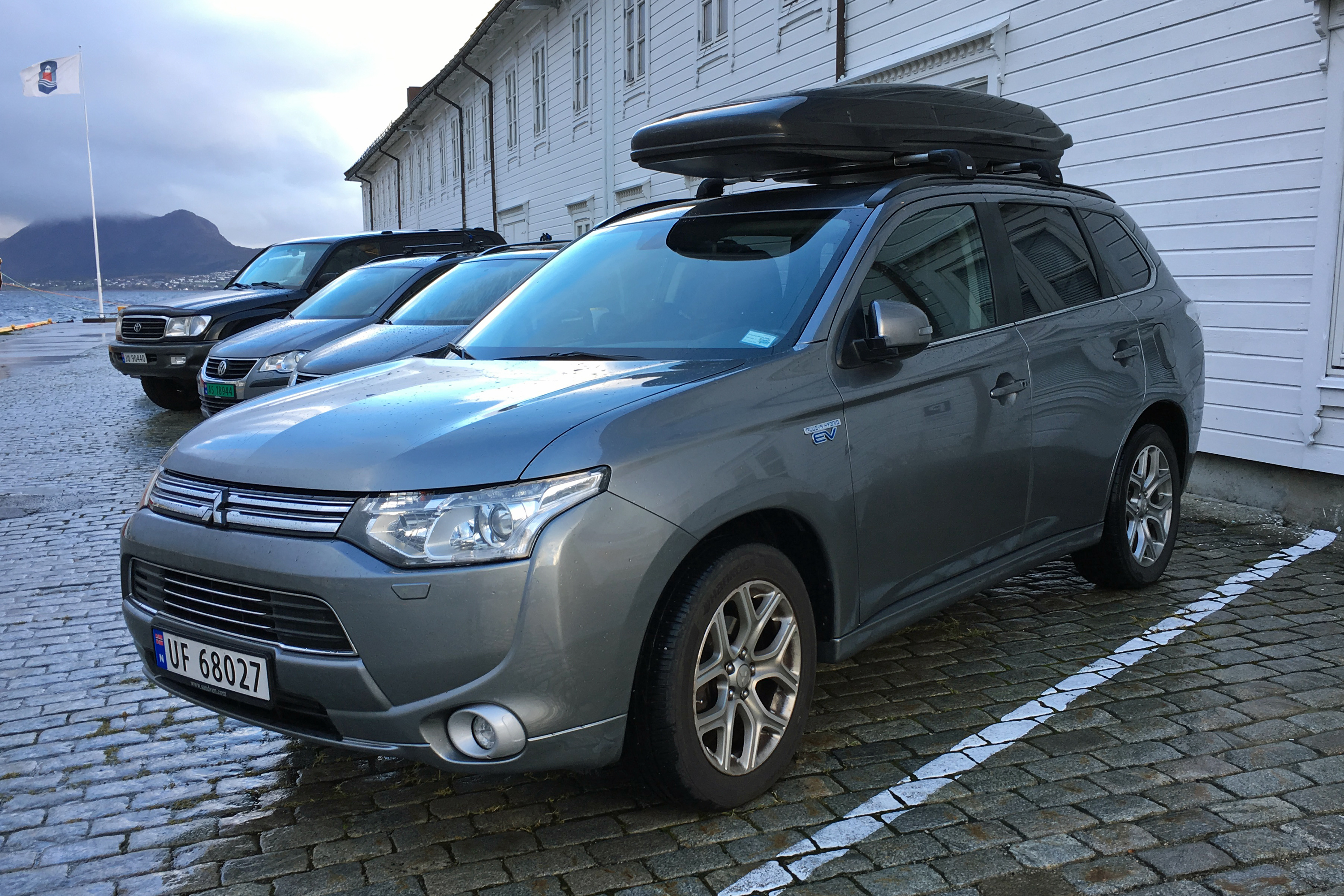 Mitsubishi Outlander P-HEV (plug-in hybrid) in Alesund, Norway.